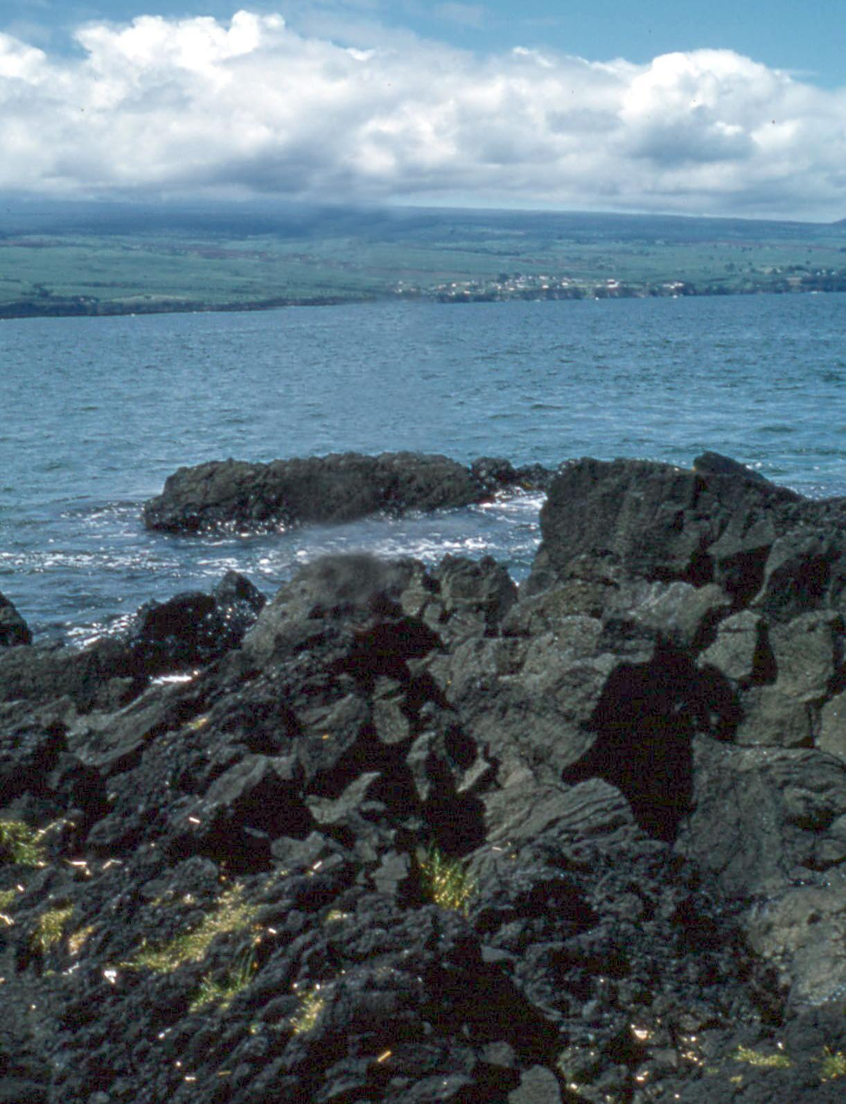 Rocky beach, Hilo, Hawaii